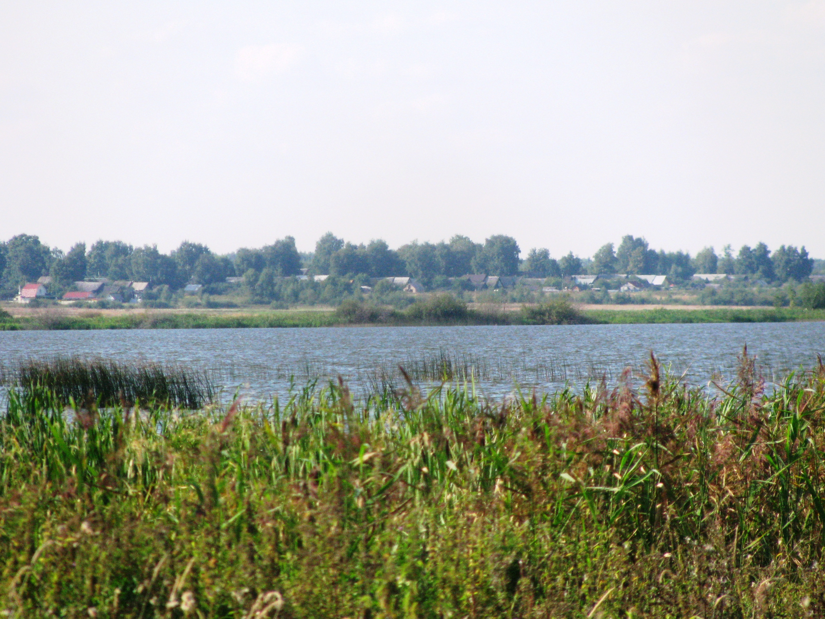 Lake Yahrobolskoe, Nekrasovsky district of the Yaroslavl region.